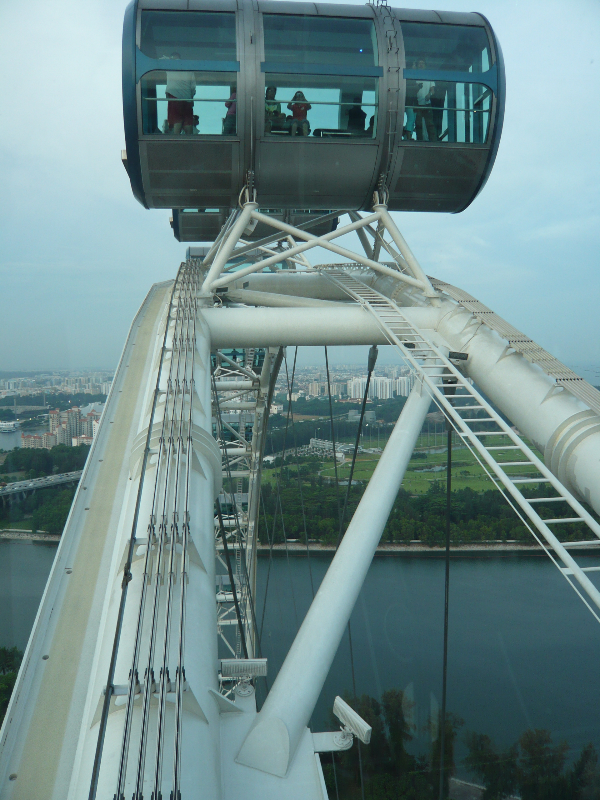 Singapore Flyer Capsule closeup